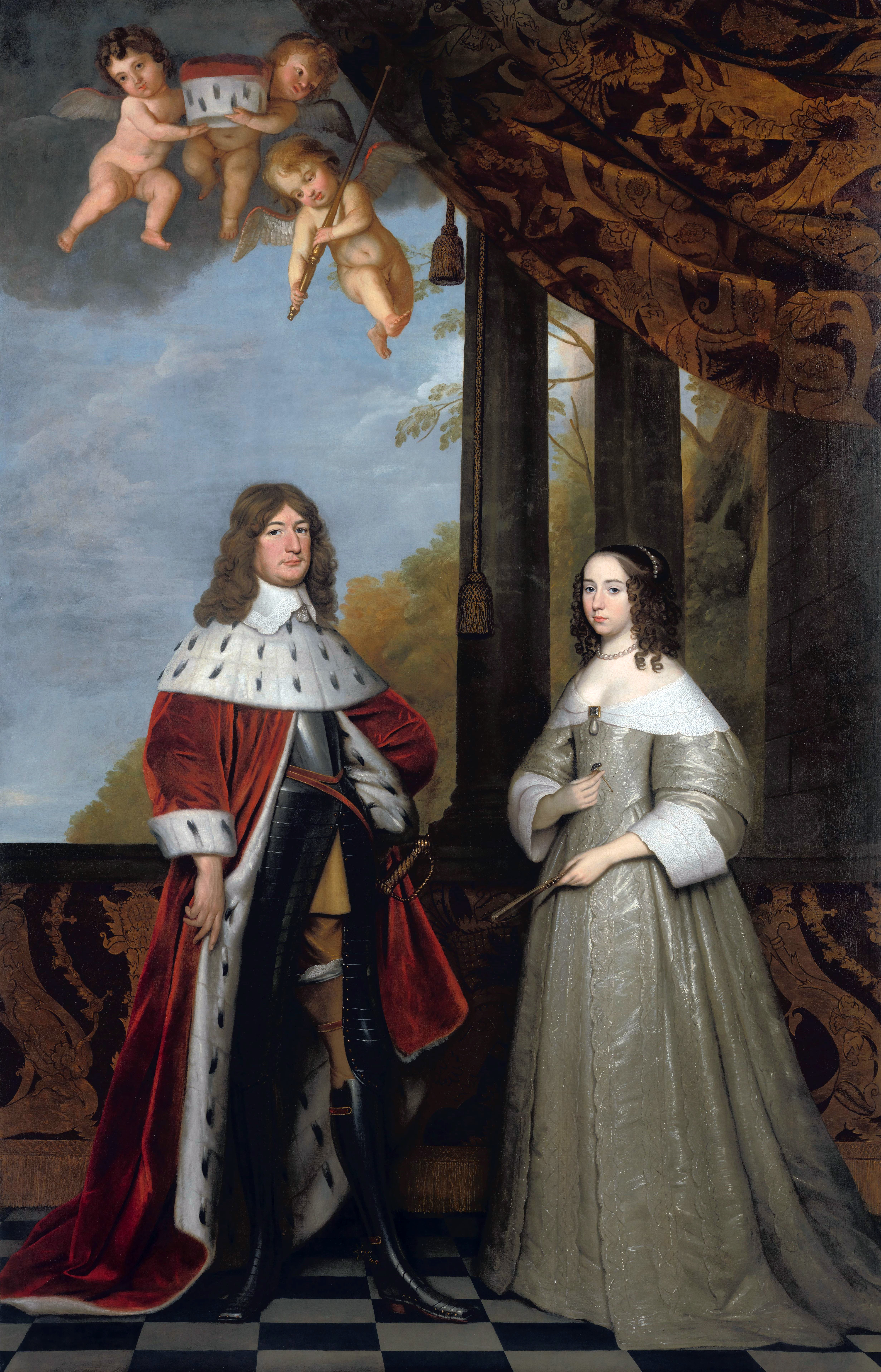 Part of a series, together with File:Willem II prince of Orange and Maria Stuart.jpg and File:Gerrit van Honthorst - Frederik Hendrik met familie.jpg.